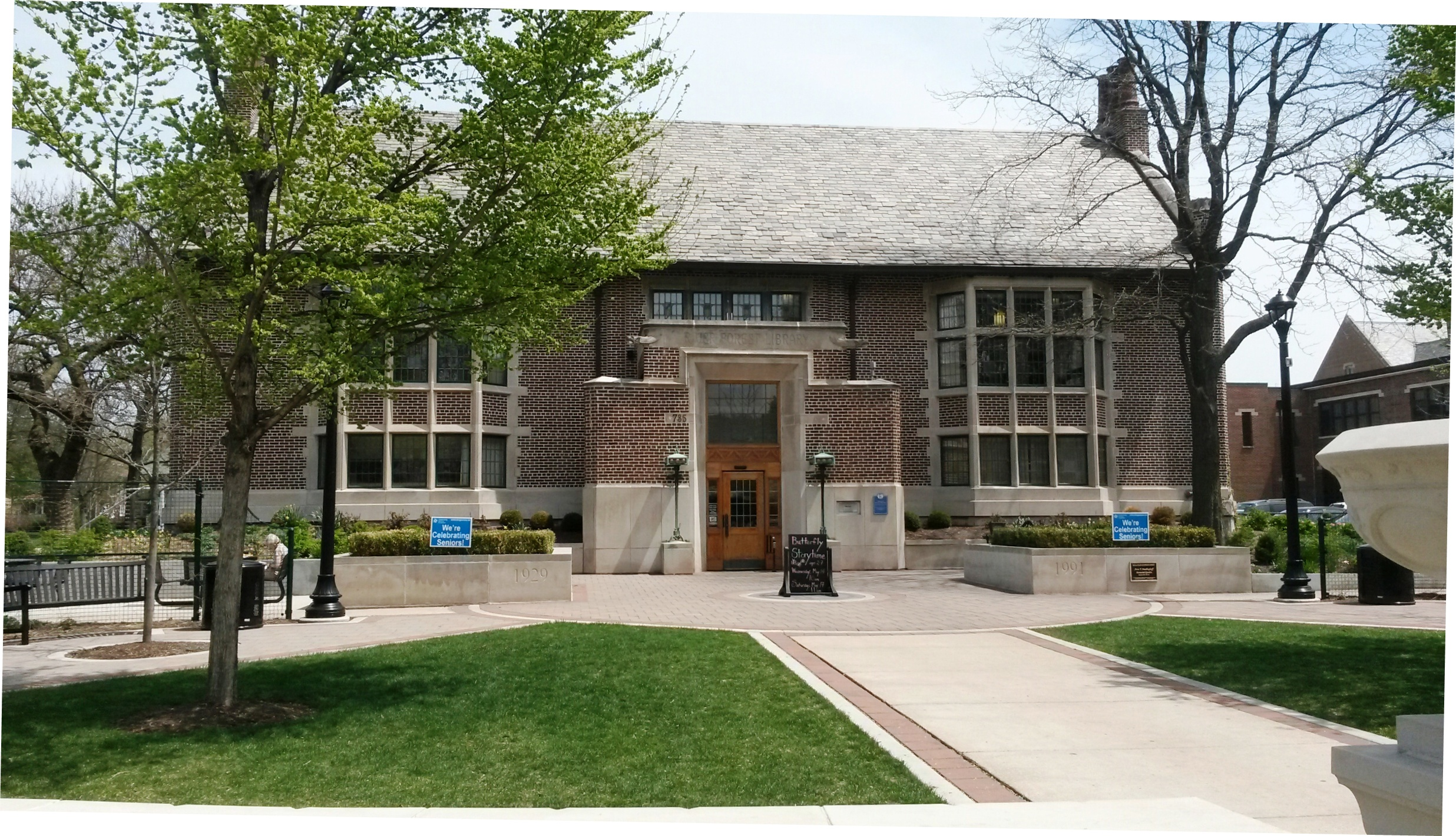 Picture of exterior of library building designed by William Eugene Drummond